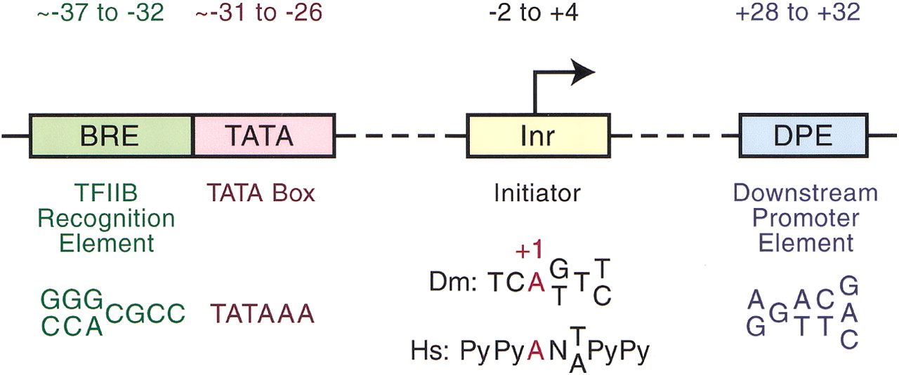 Overview of the four core promoter elements B recognition element (BRE), TATA box, initiator element (Inr), and downstream promoter element (DPE), showing their respective consensus sequences and their distance from the transcription start site. The Inr consensus sequence is shown for the model organism Drosophila melanogaster (Dm) as well as for humans (Hs).